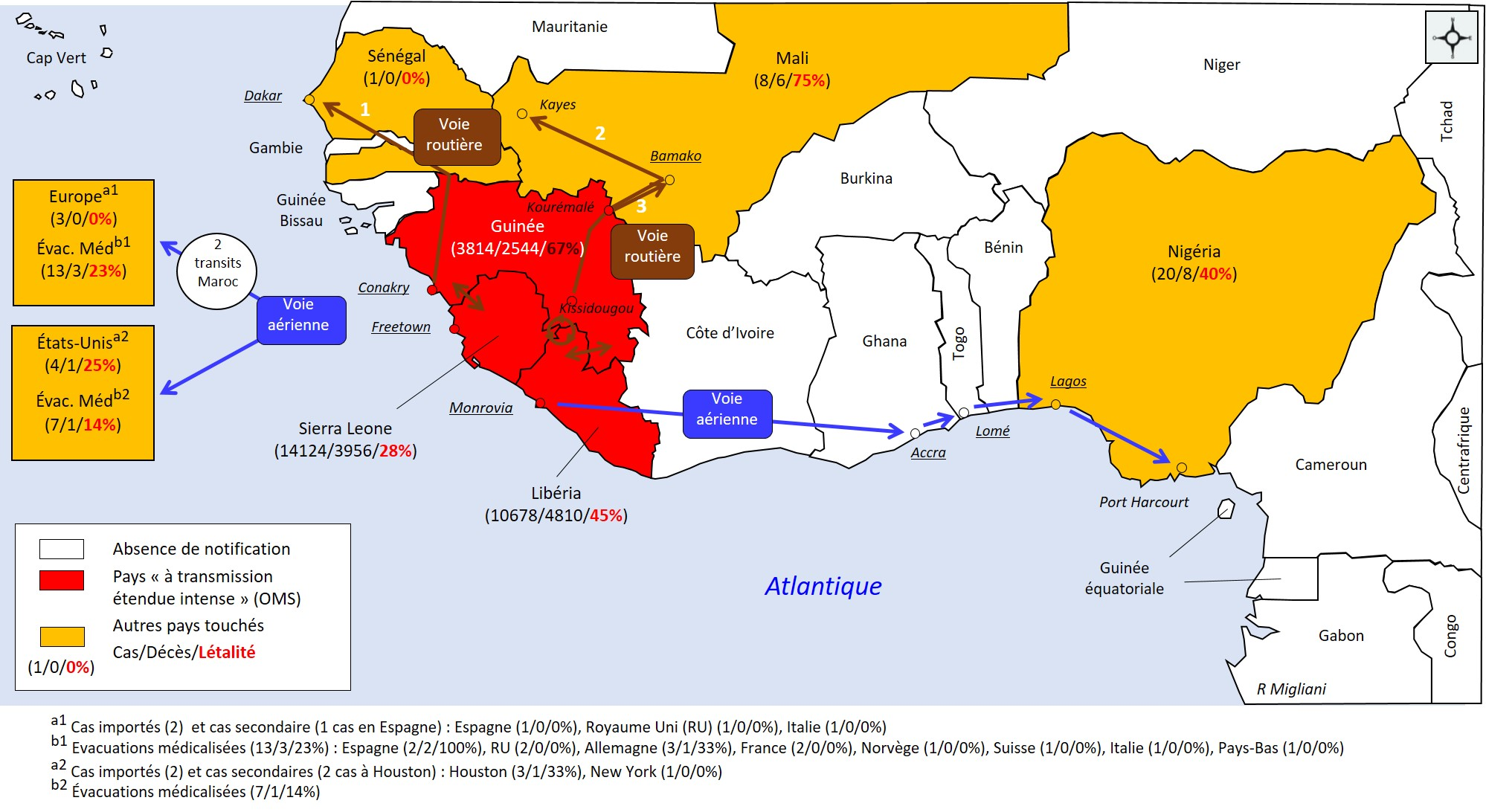 This map shows cases and deaths due to Ebola Zaire virus (Makona variant) occurring in Africa and worldwide from December 2013 to April 2016, as well as medical evacuations for Ebola disease in Europe and the United States.